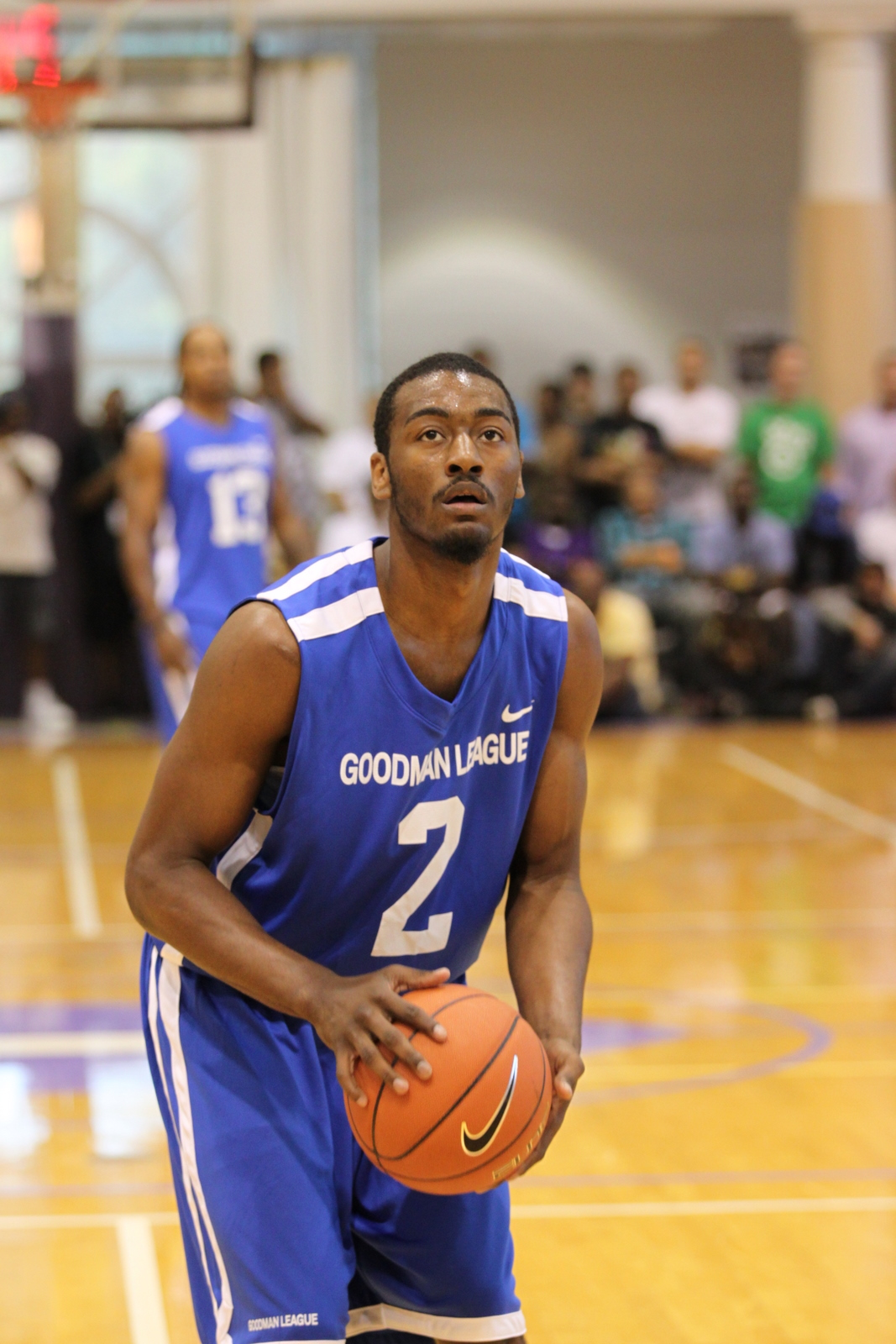 John Wall of the Goodman league taking a free throw.